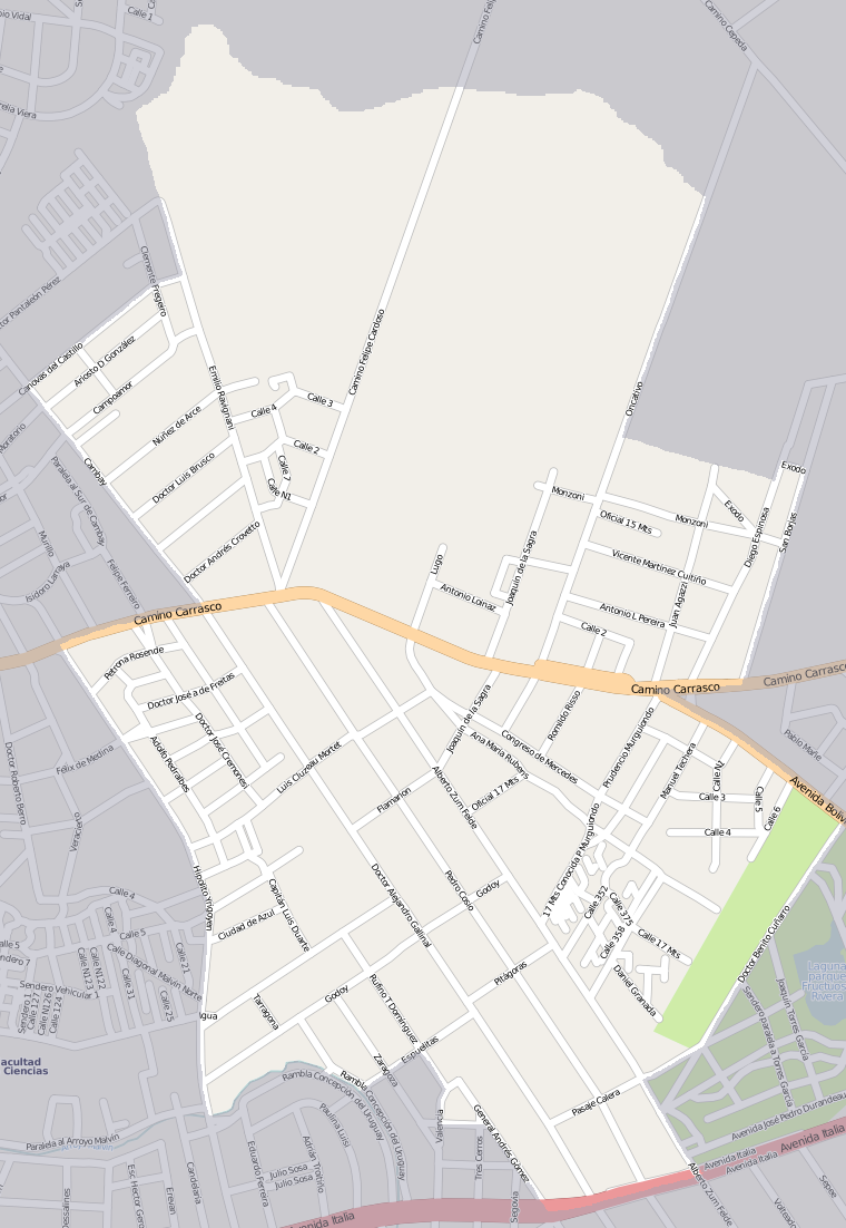 Street map of Las Canteras, Montevideo, exported from OpenStreetMap. I added shading to delimit the barrio. This map may be incomplete, and may contain errors. Don't rely solely on it for navigation.